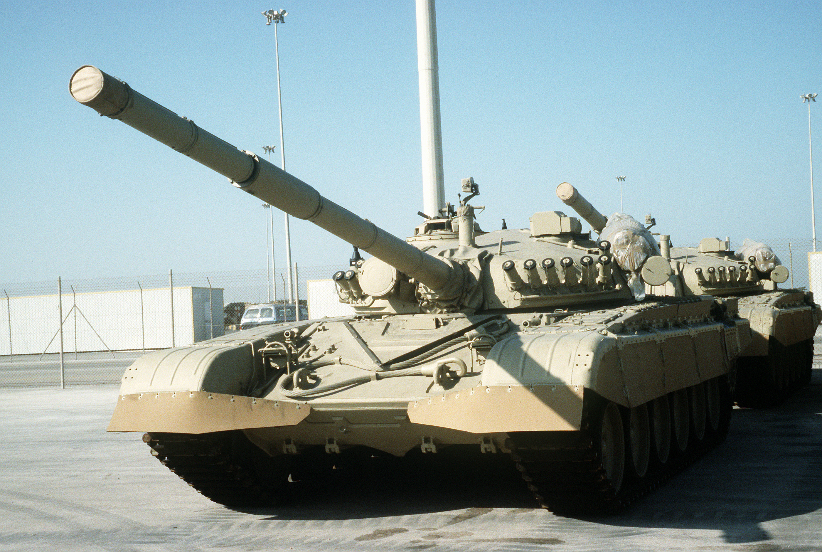 Kuwaiti M-84AB main battle tanks, made in Yugoslavia, are stored at a Saudi base during Operation Desert Shield until they can be returned after the liberation of Kuwait from Iraqi forces.